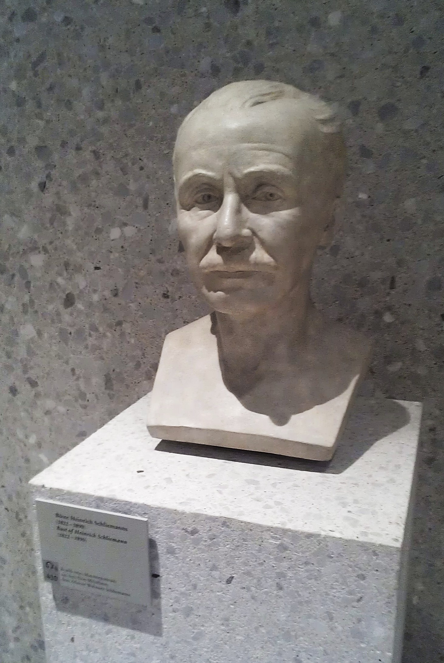 Bust of archaeologist Heinrich Schliemann in Neues Museum, Berlin.